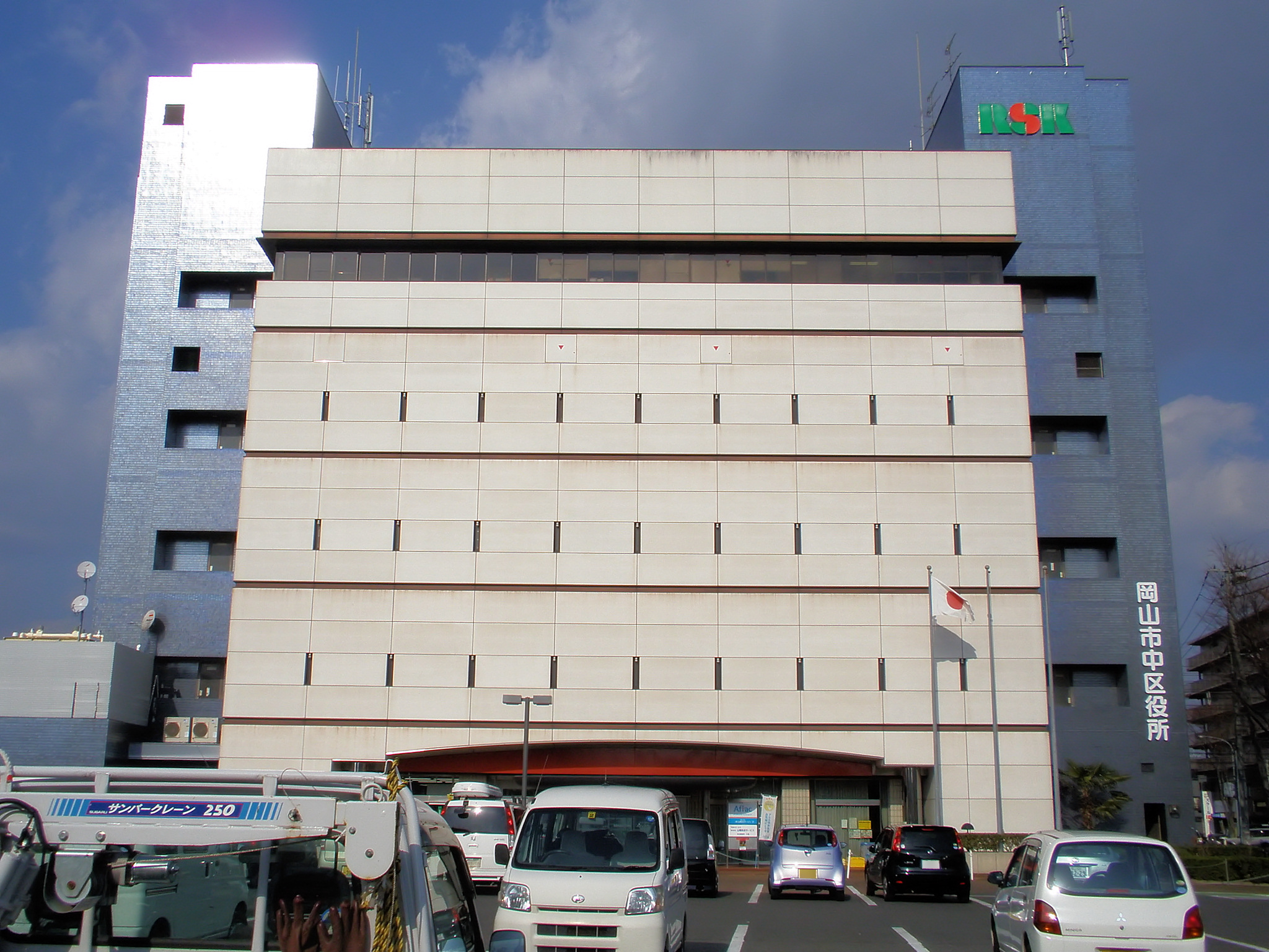 RSK Media Com Okayama city Naka ward office (March 1, 2009 - December 25, 2016)